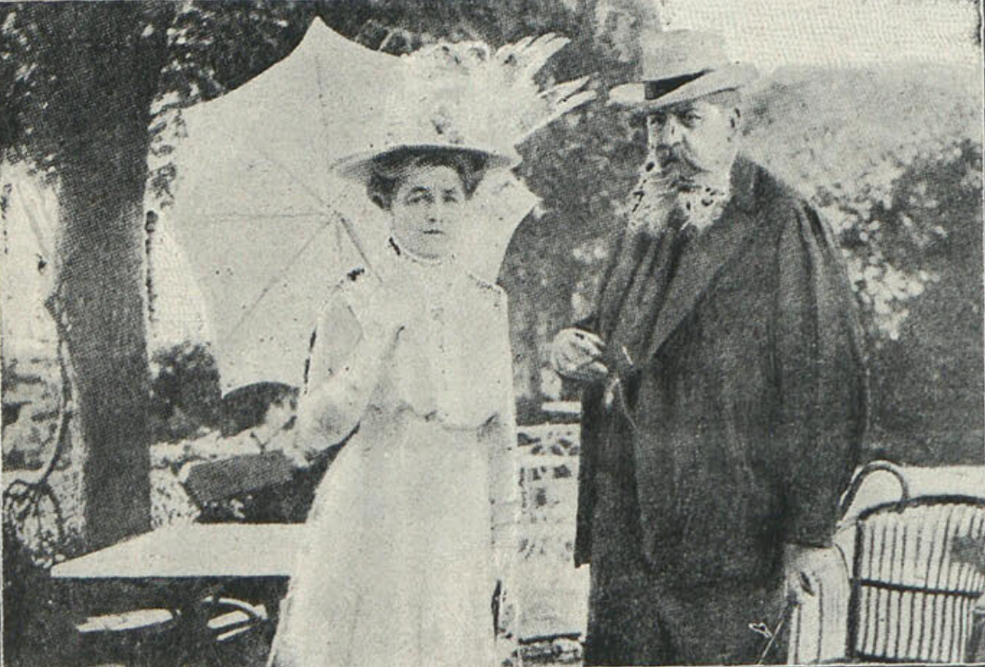 Don Carlos y Doña Berta en Varese